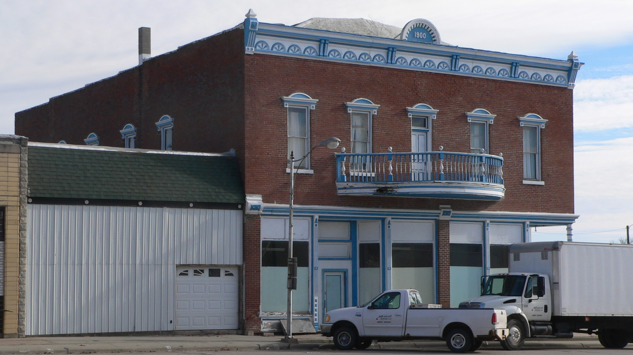 Schneider Opera House, located on east side of Ash Street in Snyder, Nebraska; seen from the northwest, across Ash.